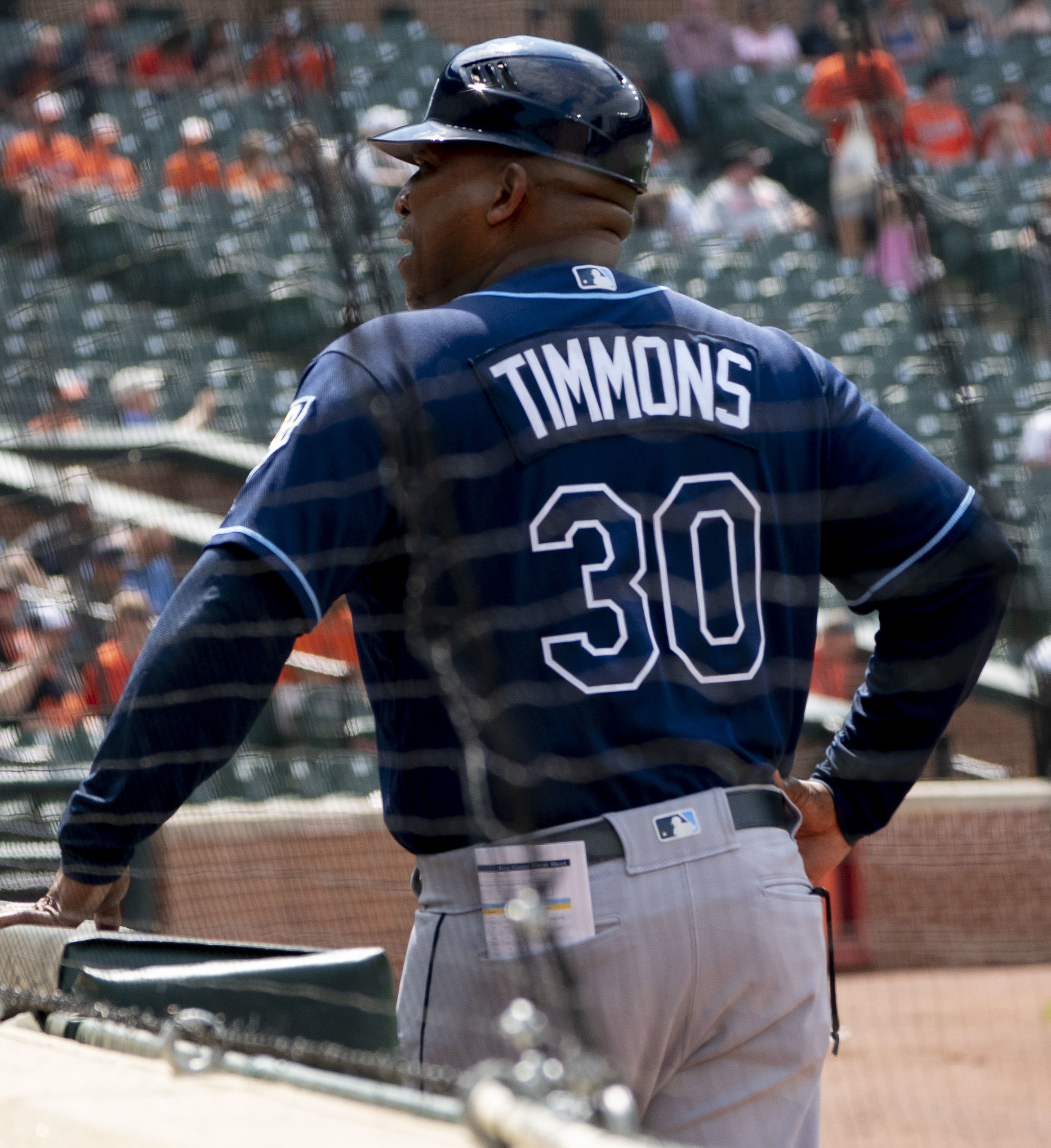 Rays at Orioles 5/12/18